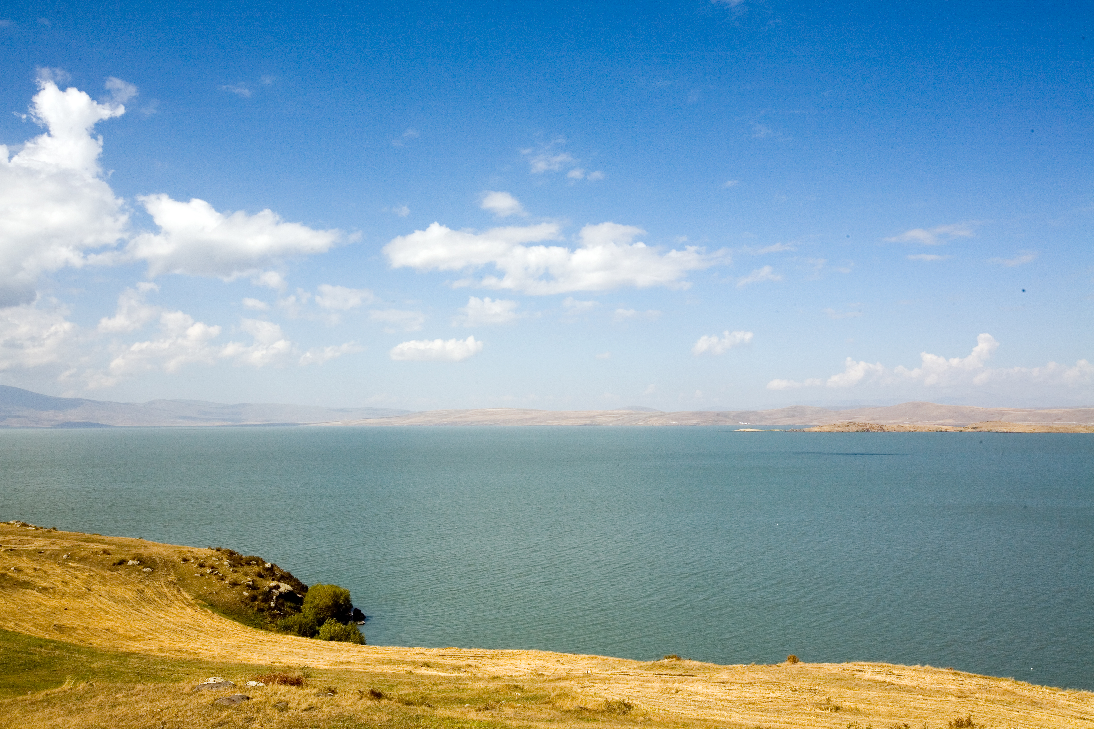 Lake Çıldır